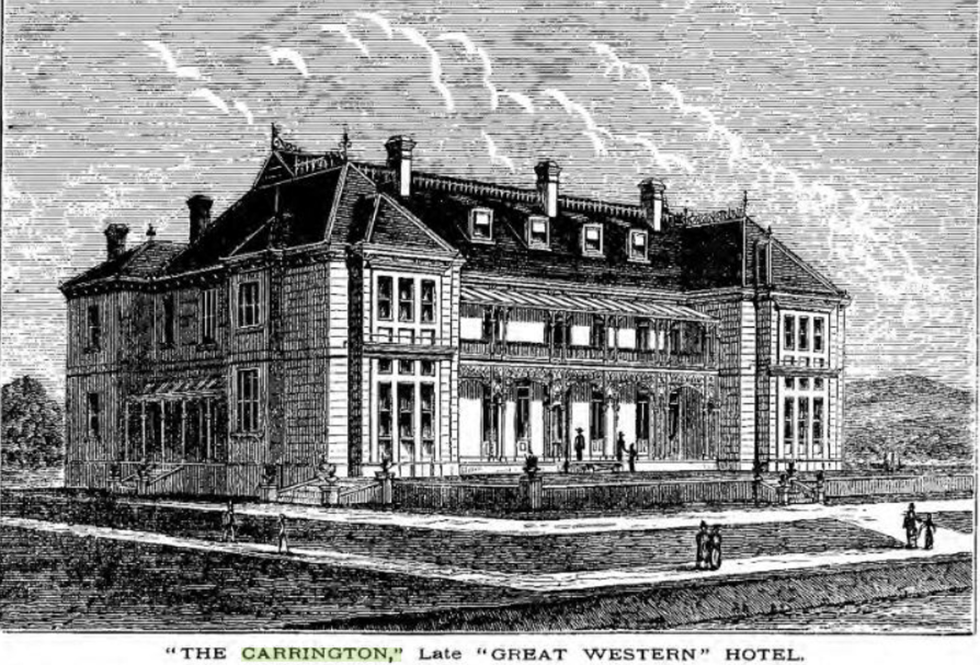 The Carrington Hotel, Katoomba in 1885